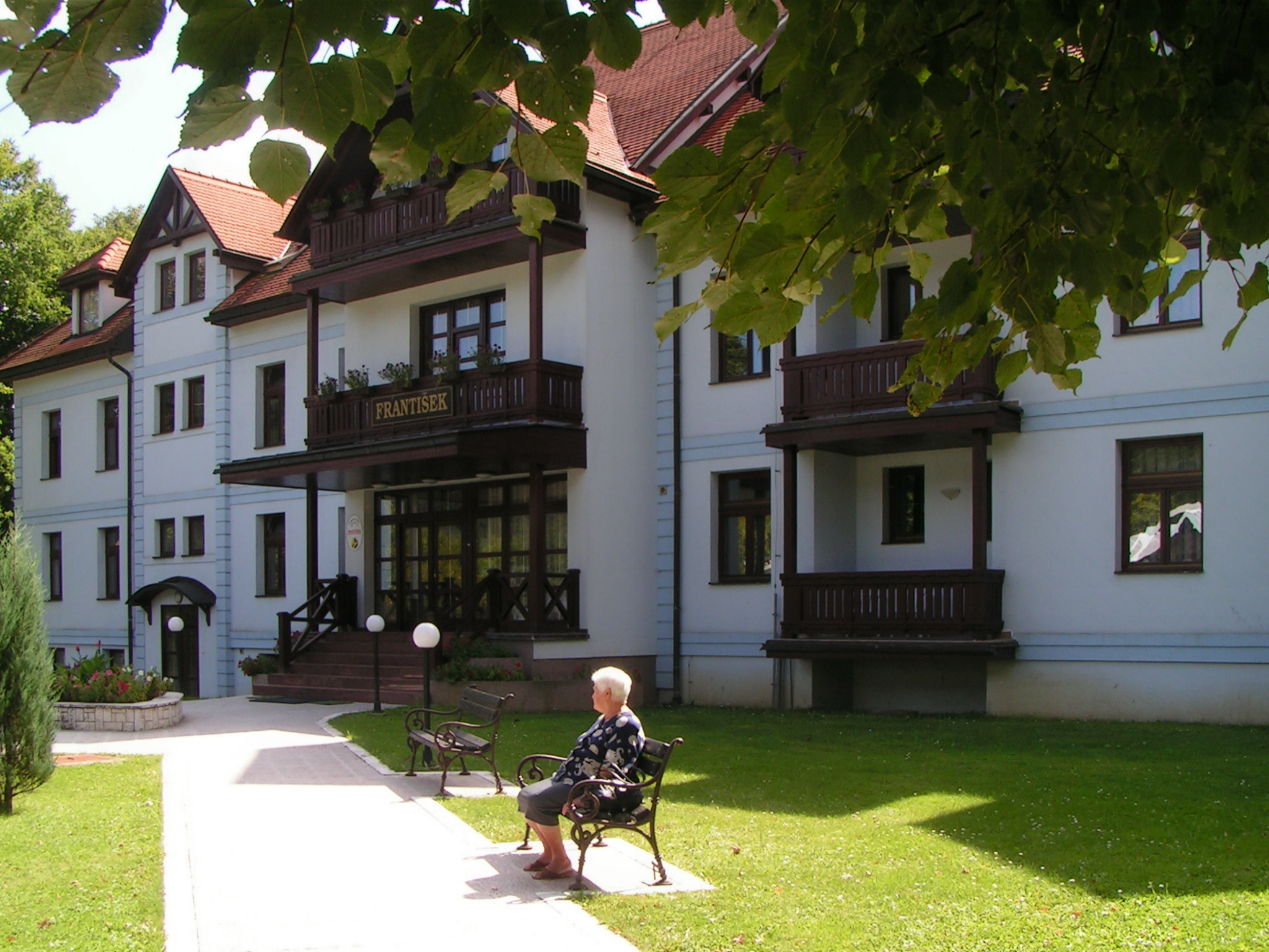 Bardejovské Kúpele - resort František